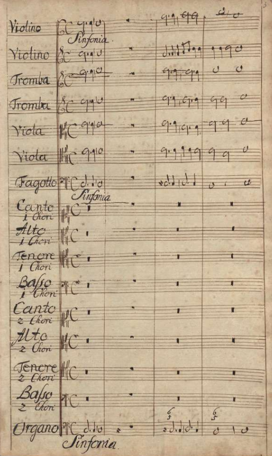 Pietro Torri's Magnificat: beginning of the manuscript score conserved in the Berlin State Library